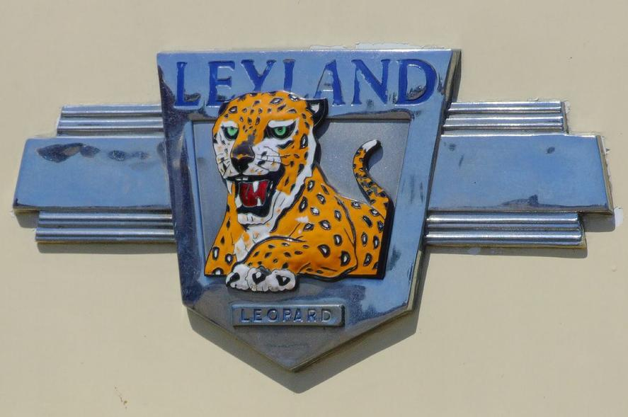 Leyland Leopard bus badge (cropped from original source image)